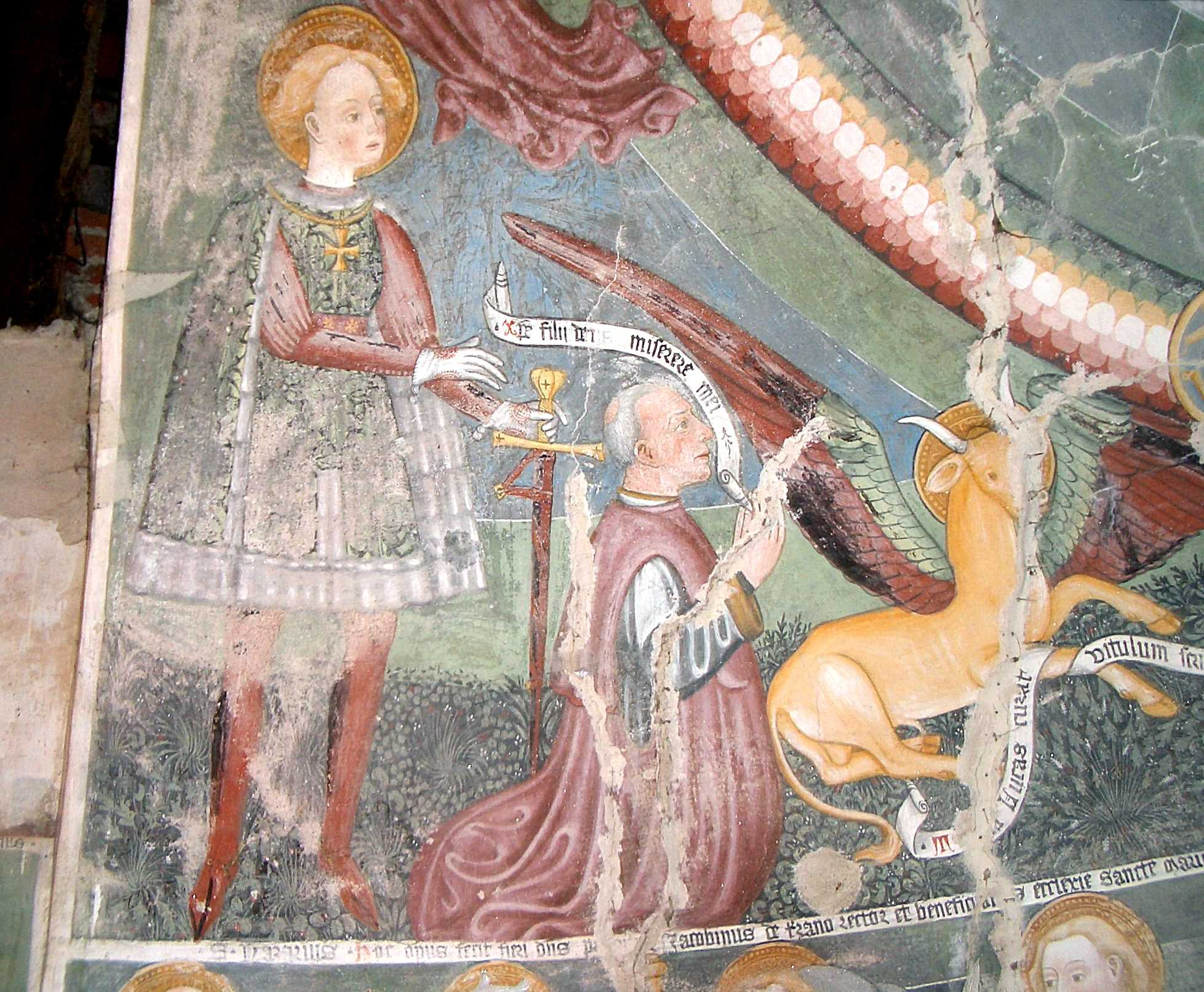 Giovanni de Campo, St. Nazzaro and the donor, frescoes of the apse, 1461, Caltignaga, Chiesa dei Santi Nazzaro e Celso (Sologno)